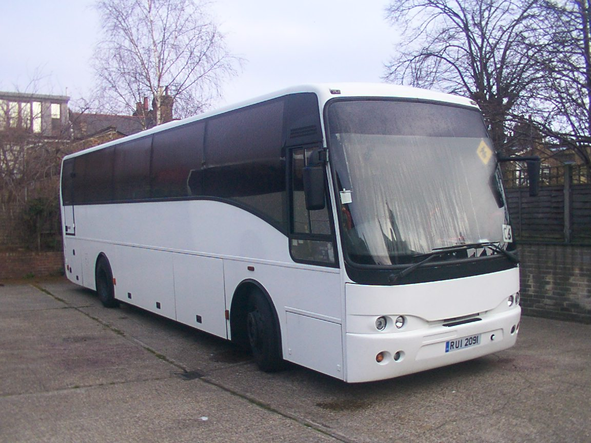 Anonymous Volvo RUI2091. Jonckheere bodywork Previously S905JHG. New 1998 to Ribble as 1121 for Stagecoach NW no 52616. .Operator: the uniquely named LLWENZA CLARKE.